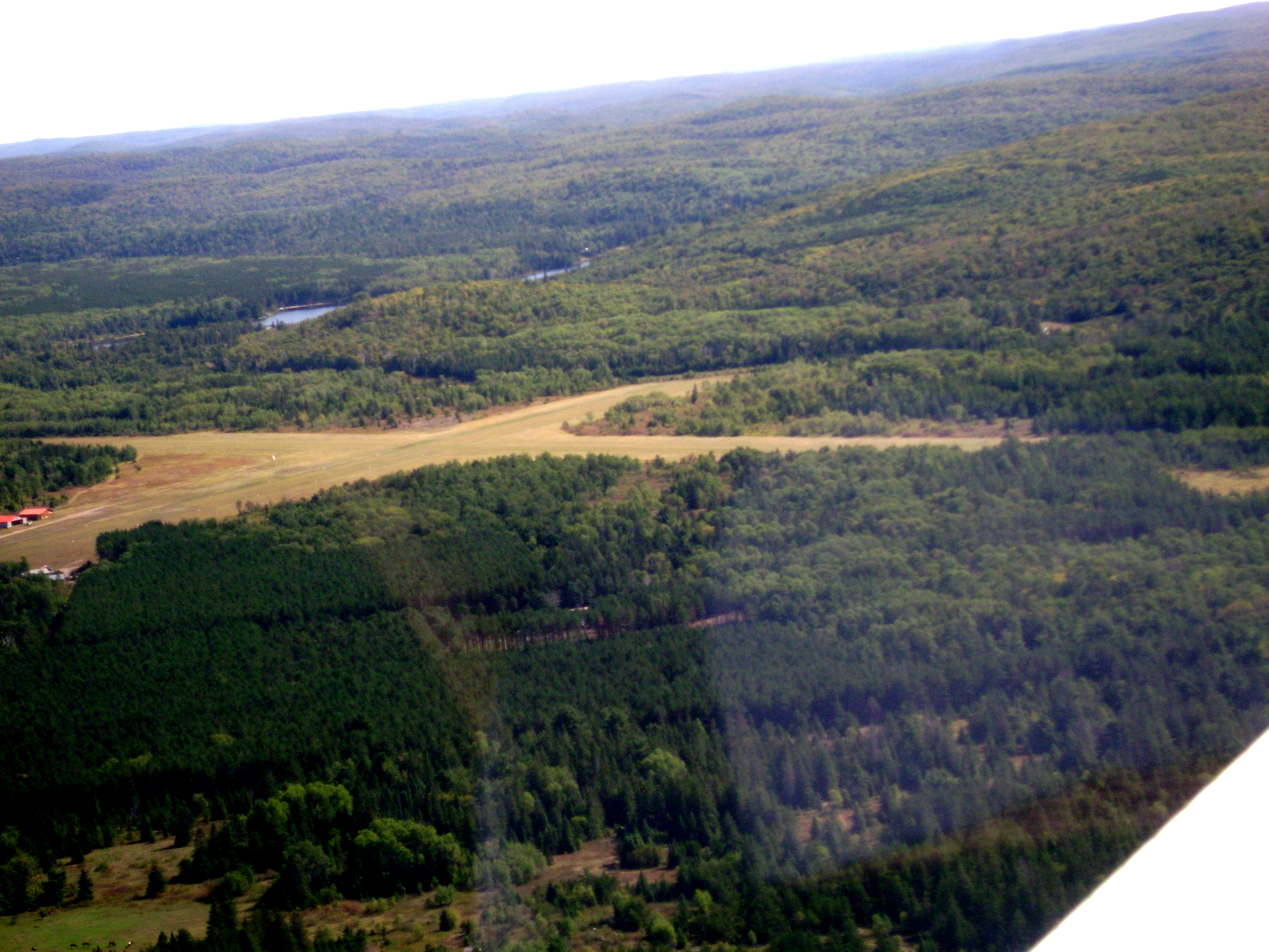 South River/Sundridge Airport, Ontario, Canada, from the south on left base for runway 04.